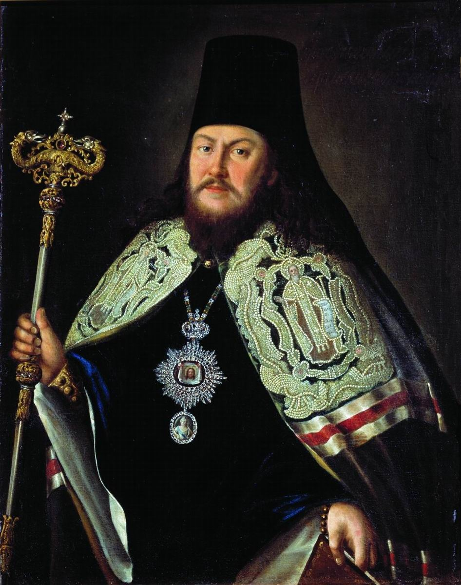 Portrait of Platon Levshin (1737-1812)